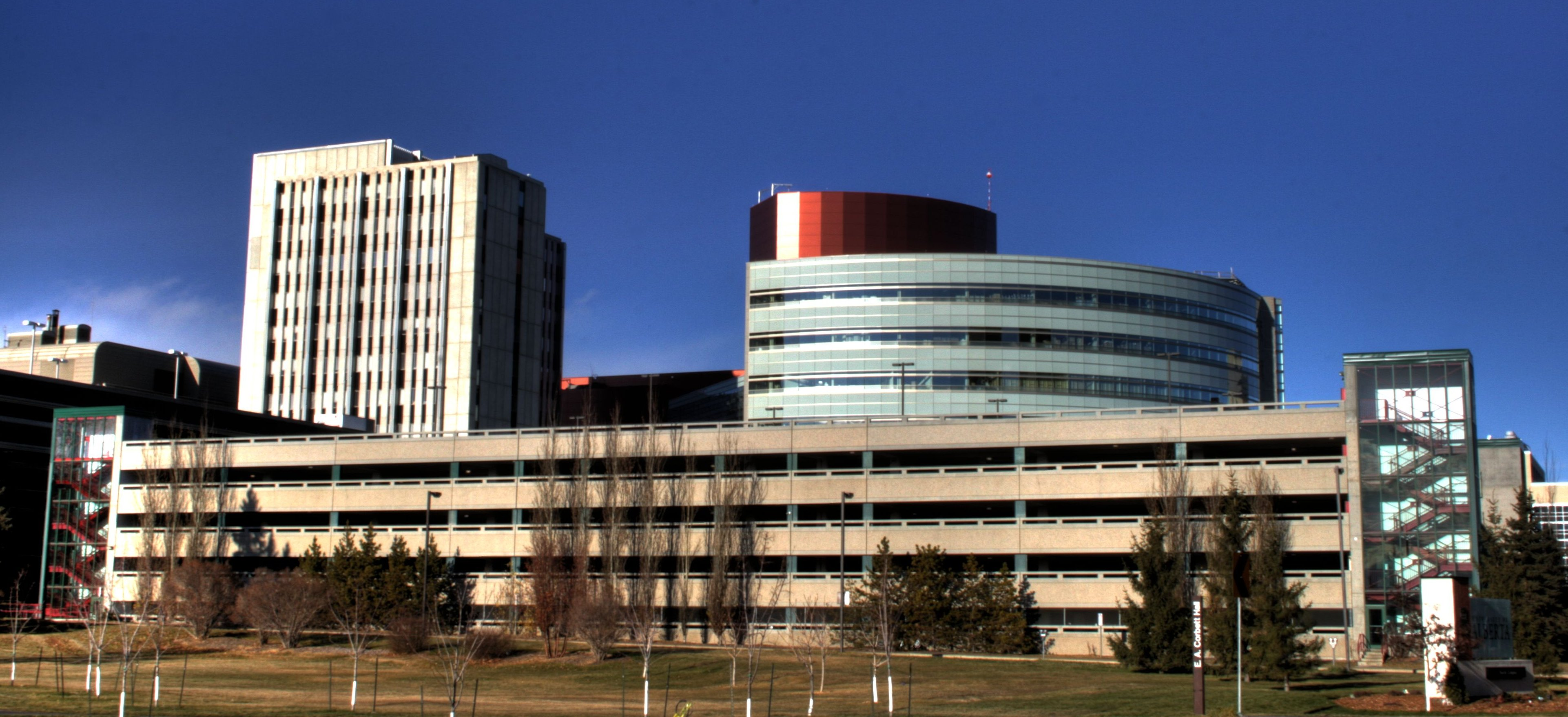 A view from the south of the University Hospital complex on the north campus of the University of Alberta, Edmonton, Alberta, Canada.